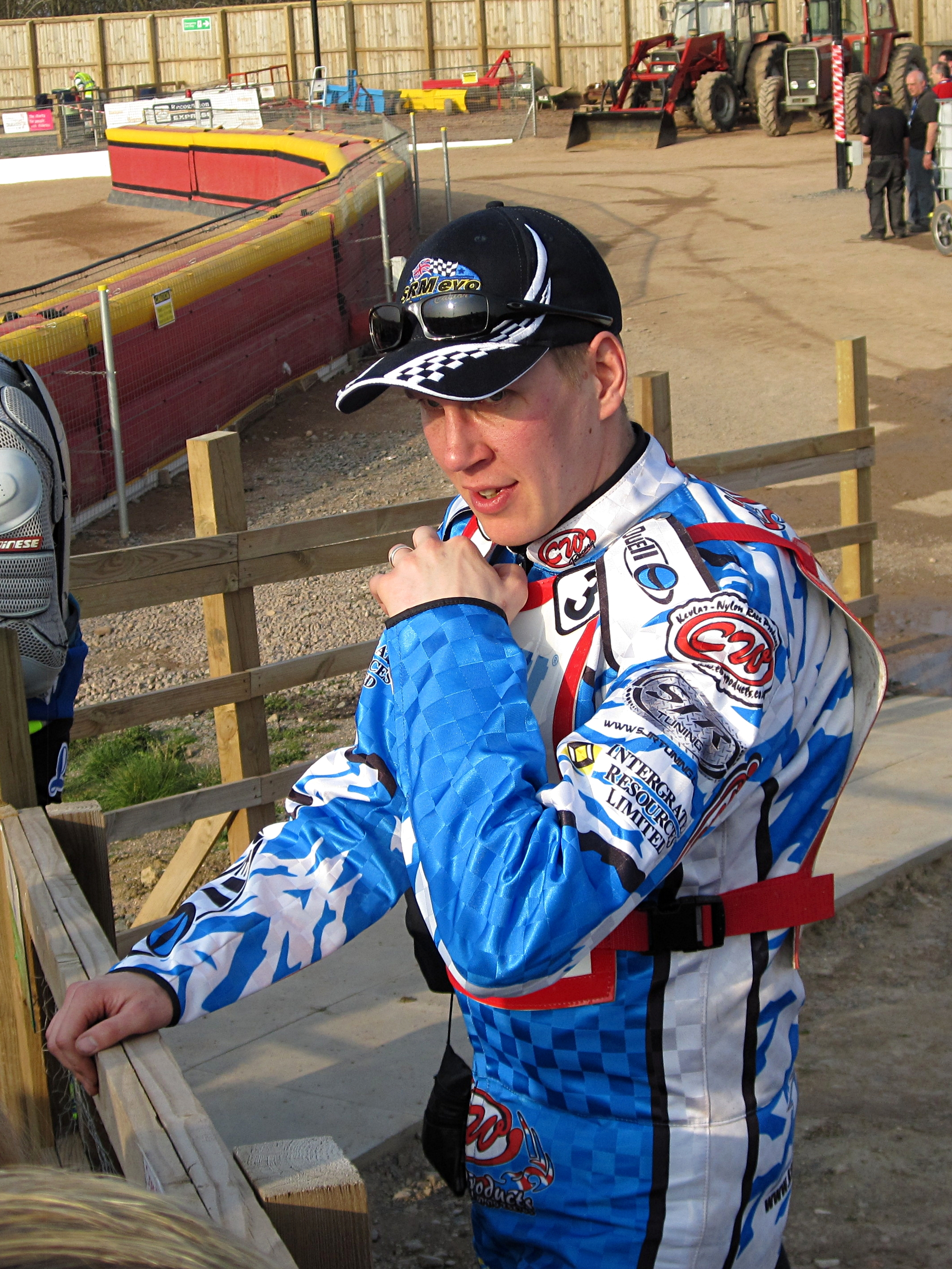 Kauko Nieminen at the Press & Practice event, Leicester Speedway